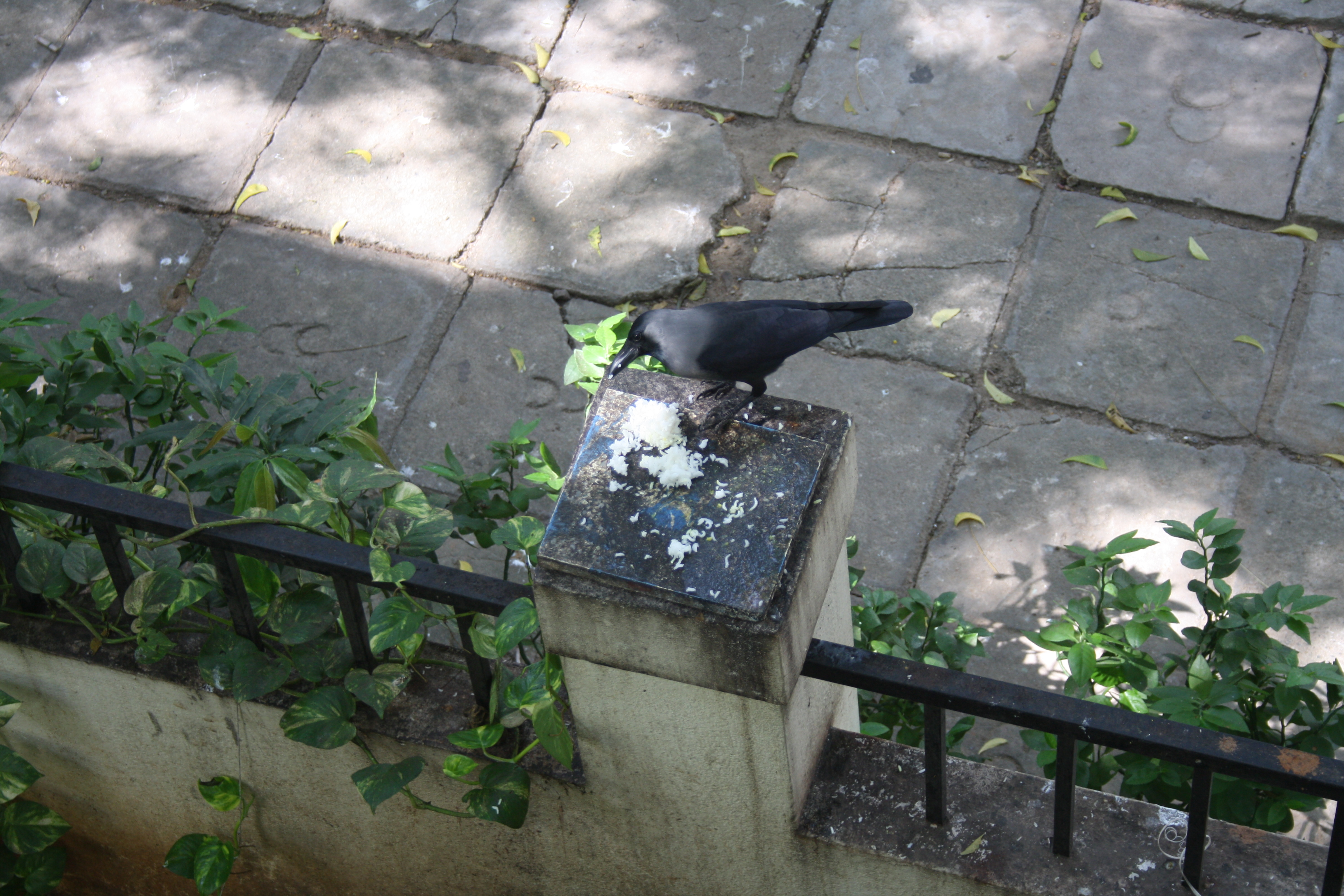 Crow eating cooked rice, which is offered every day by people from Tamil Nadu, from the day's cooked food. The food is first offered to the crows before having the morning meal. The belief is that these are for the ancestors and the crows represent the ancestors. There is also a different belief that the crow being the vehicle of Saturn (Saneeswaran), offering food to the crow reduces the ill effects and difficulties from our life, little-by-little.